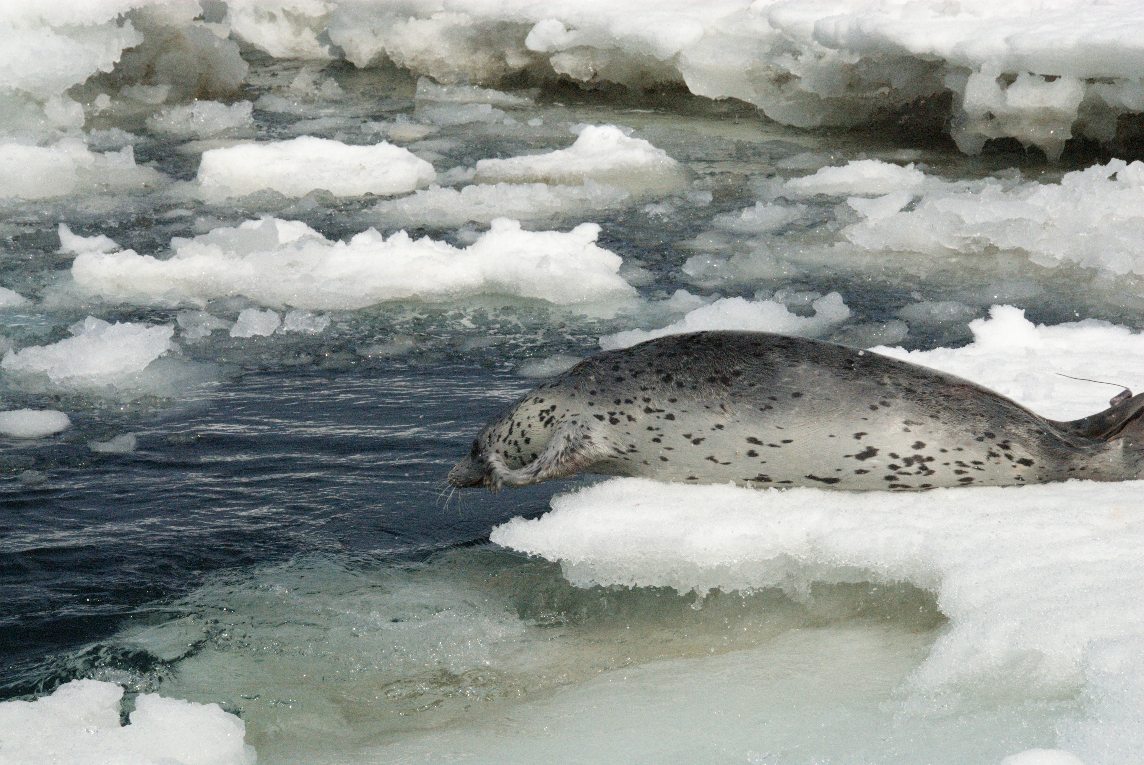 Spotted Seal Phoca largha, Alaska